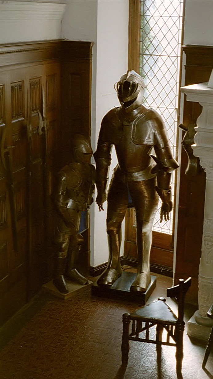 Armour in Cochem Castle